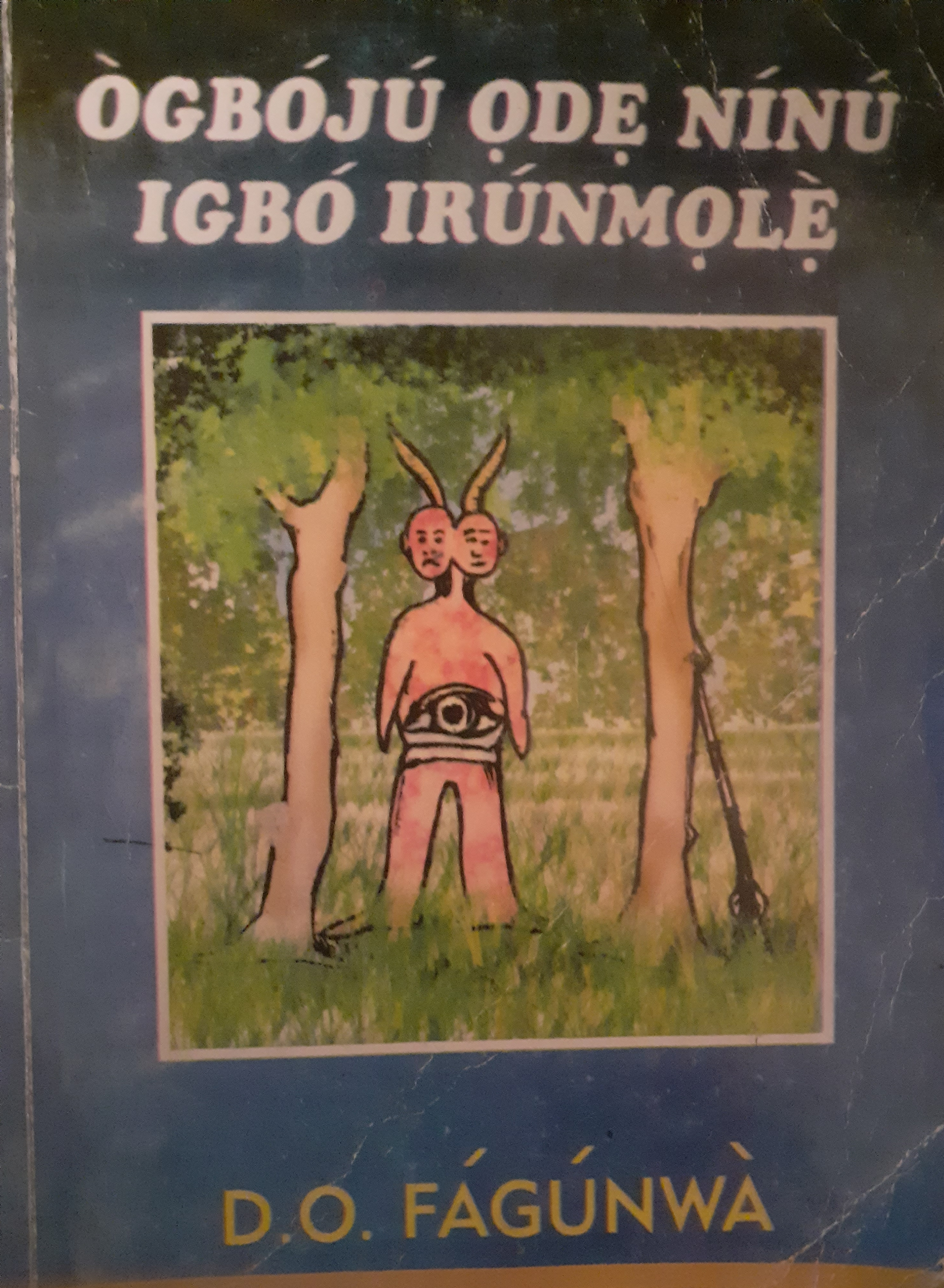 This is the original cover for Ògbójú Ọdẹ Nínú Igbó Irúnmọlẹ̀ written by D.O. Fagunwa and published in 1950.